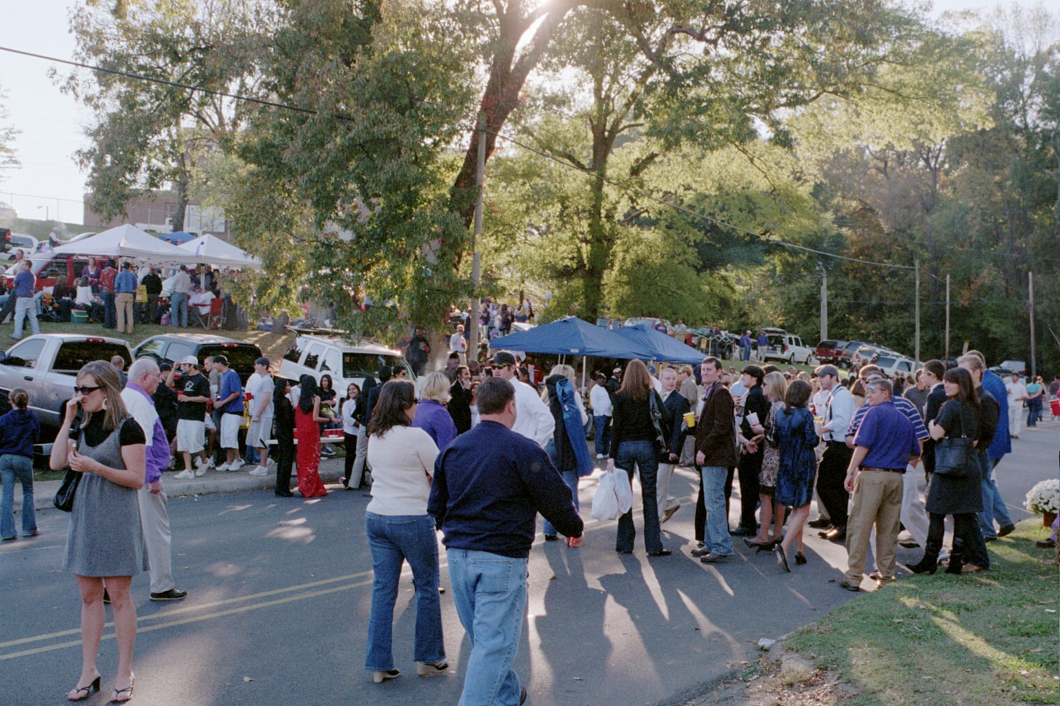 Taken by me in Nov., 2007 of Tailgaiting at the University of North Alabama's Spirit Hill at Braly Municipal Stadium, Florence, Alabama.